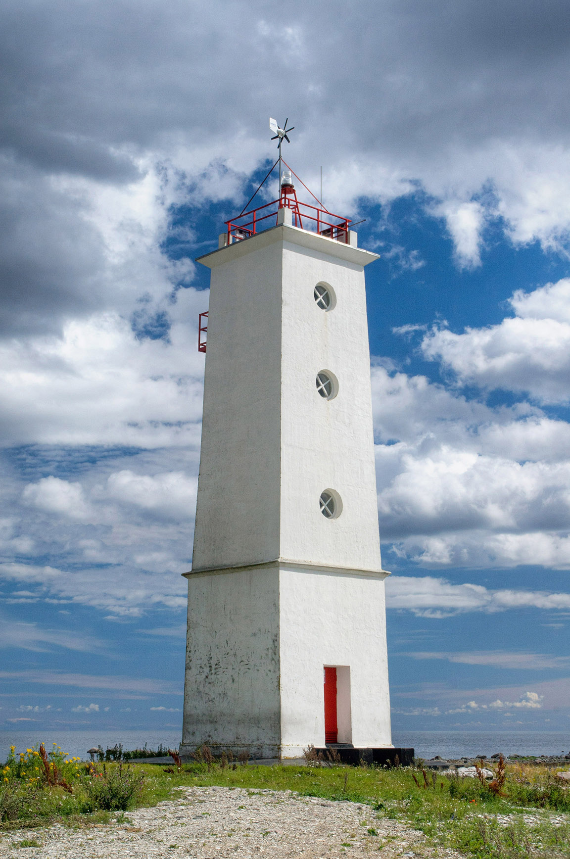 Sääretuka lighthouse